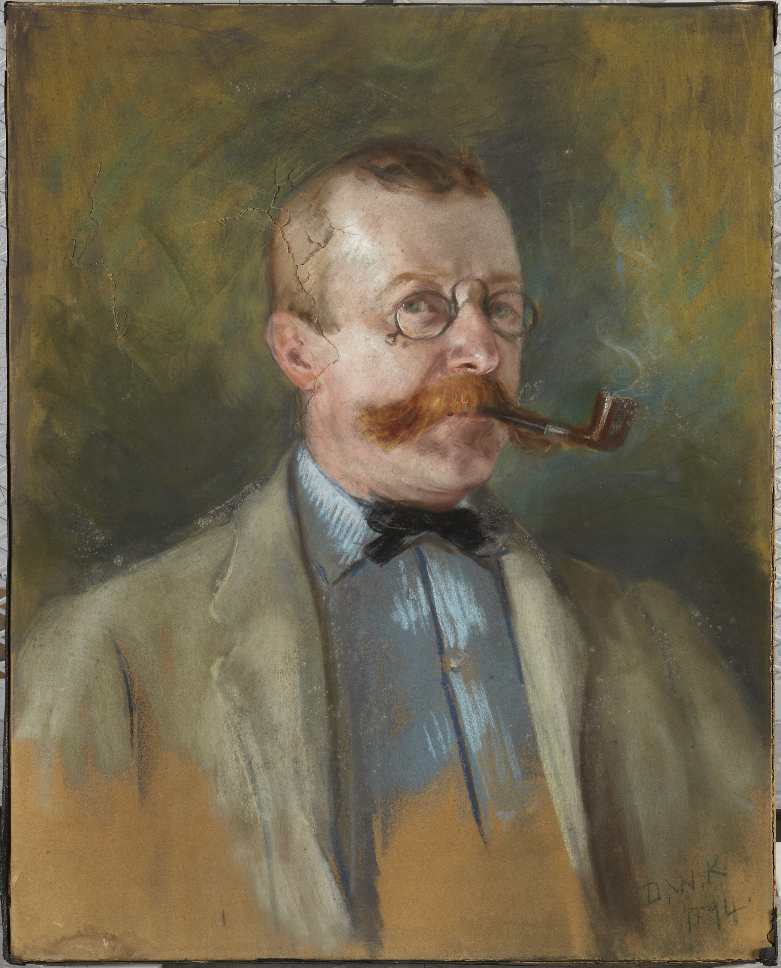 Dora Wheeler Keith, American, 1857 - 1940 Laurence Hutton (1843-1904), 1894 Pastel on wove paper canvas: 63.8 x 51.1 x 2.5 cm. (25 1/8 x 20 1/8 x 1 in.) Princeton University, bequest of Laurence Hutton PP101